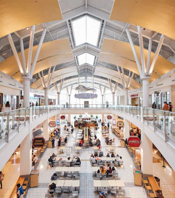 This is the recently remodeled Food Court at the Shops at Tanforan.